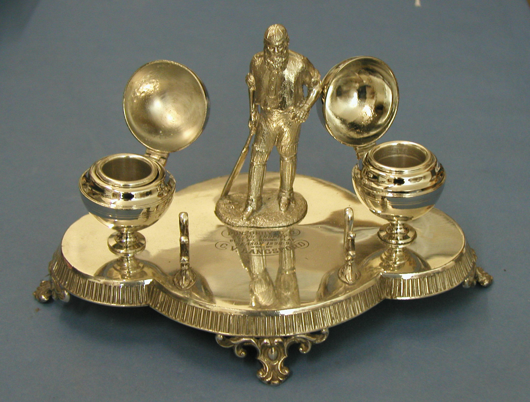 Presentation inkstand, Ponsonby Cricket Club, Club Trophy, Best All Round Play, 1898-1899 marked- PONSONBY C.C. - CLUB TROPHY - BEST ALL ROUND PLAY - SEASON 1898-9 - WON BY - C.V. LANGSFORD